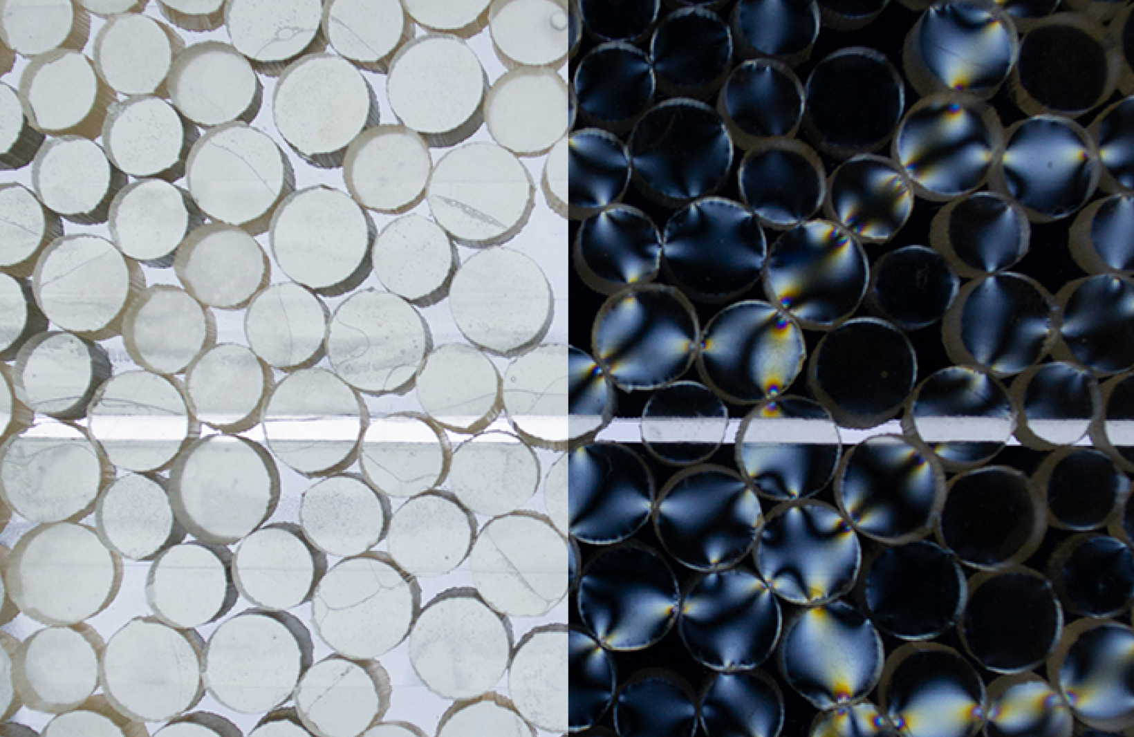 These are polyurethane discs, the left side is what they look like under normal light and the right side is what it looks like with a polarizer above them.